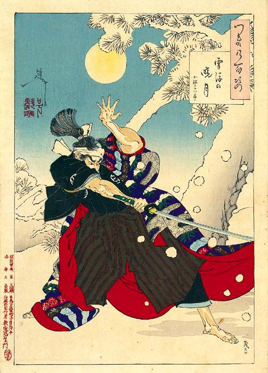 Dawn moon and tumbling snow (Seppu no gyogetsu)